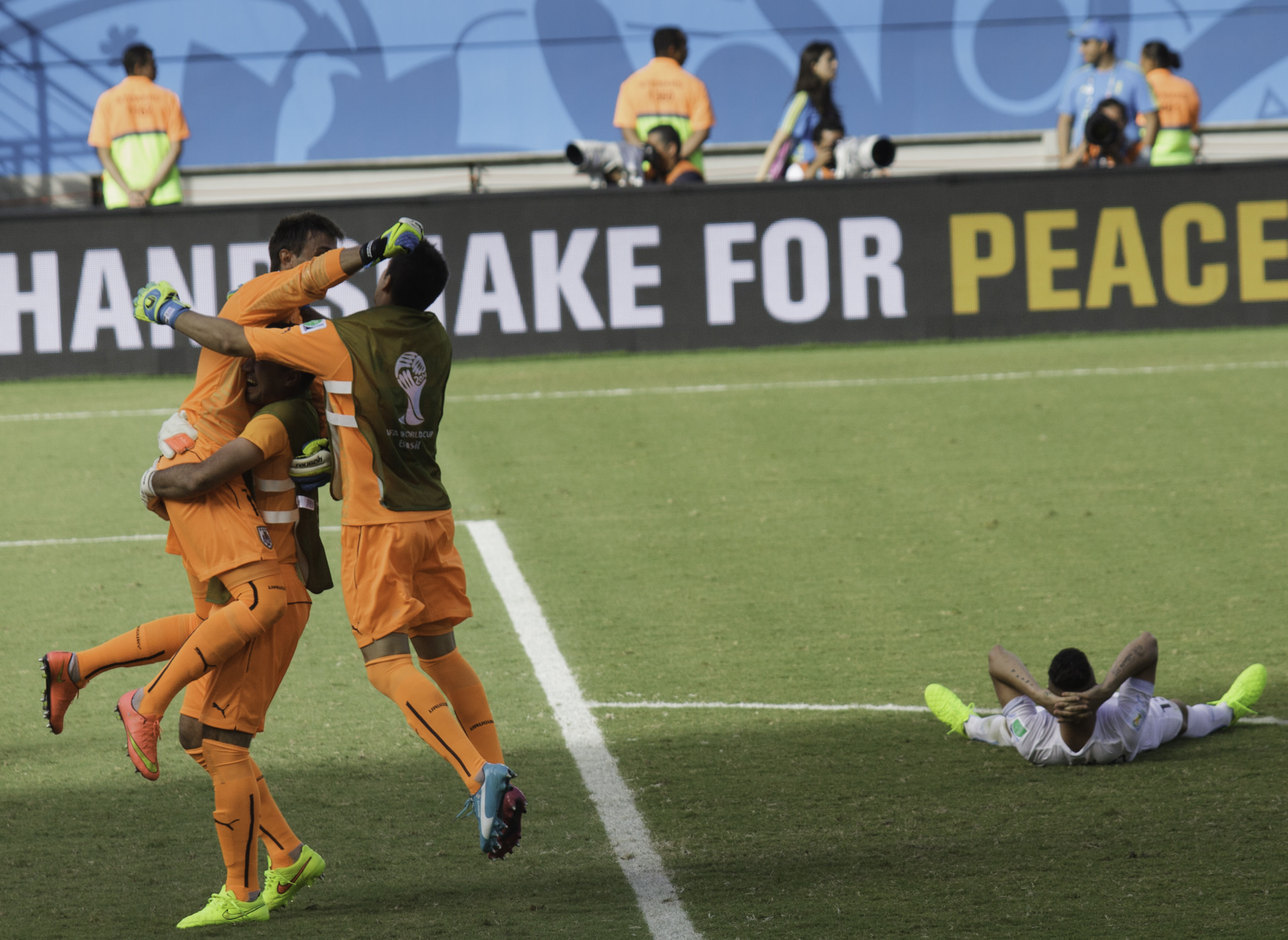 Italy and Uruguay match at the FIFA World Cup 2014-06-24, Arena das Dunas, Natal, Brazil.